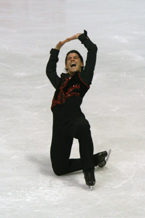 2008 European Figure Skating Championships - Stéphane Lambiel